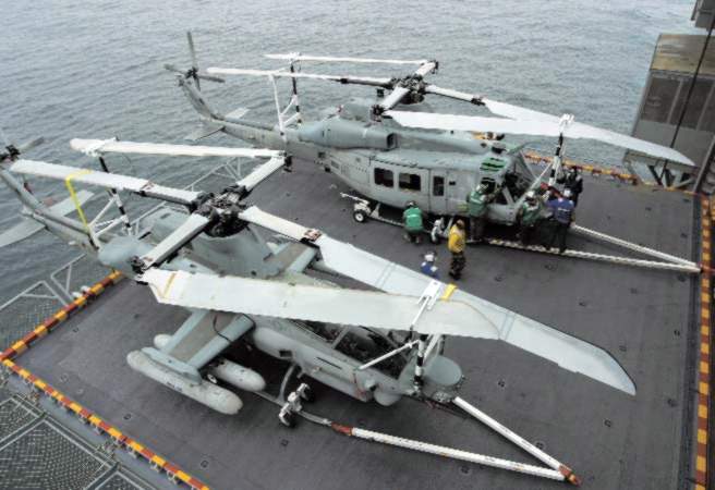 A U.S. Marine Corps Bell AH-1Z Viper and a Bell UH-1Y Venom during trials aboard the U.S. Navy amphibious assault ship USS Bataan (LHD-5) off the Virginia Capes. The sea trials comprised 267 landings during nearly 30 flight hours, conducted both day and night.